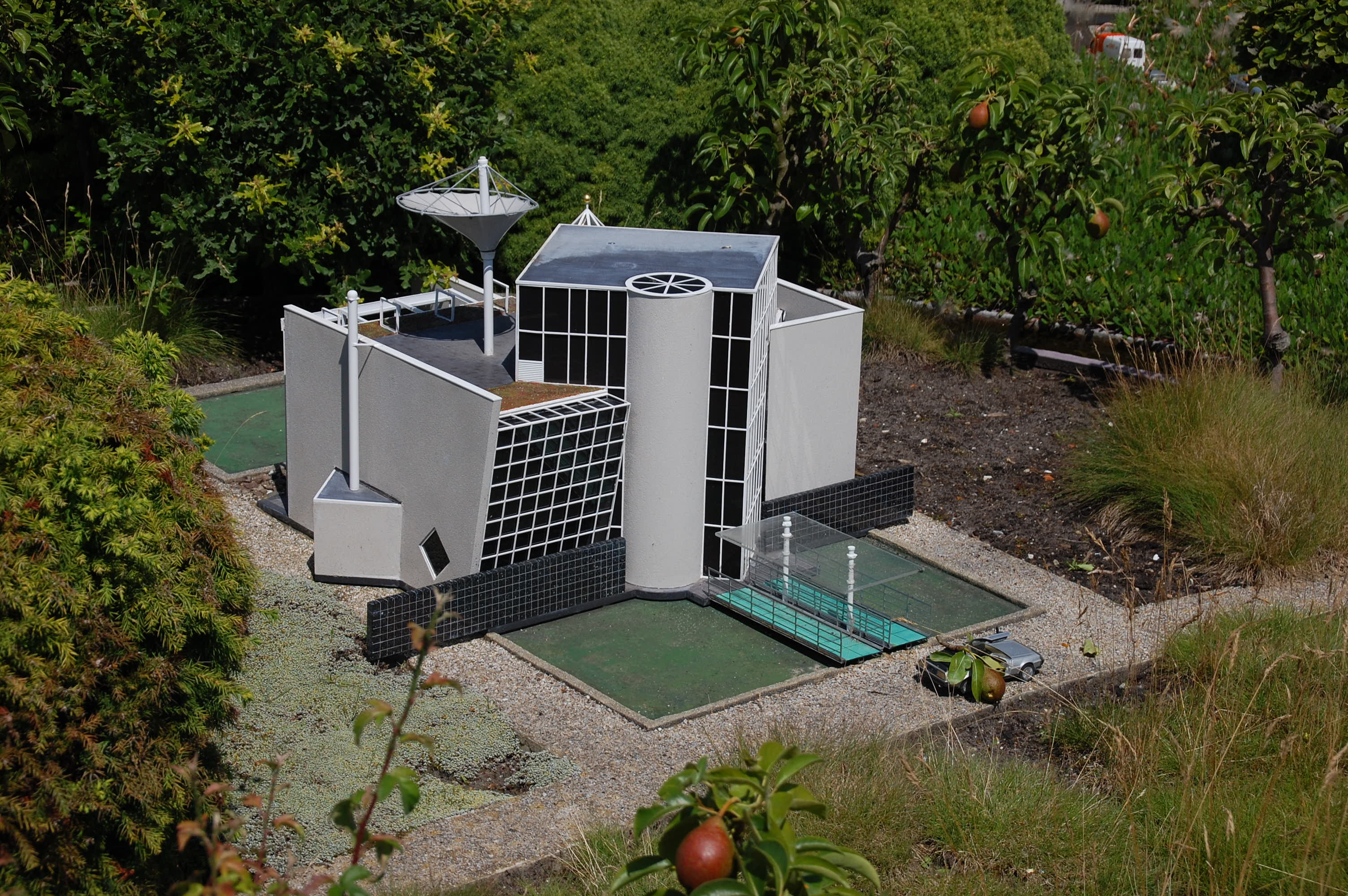 The house of the future in rosmalen